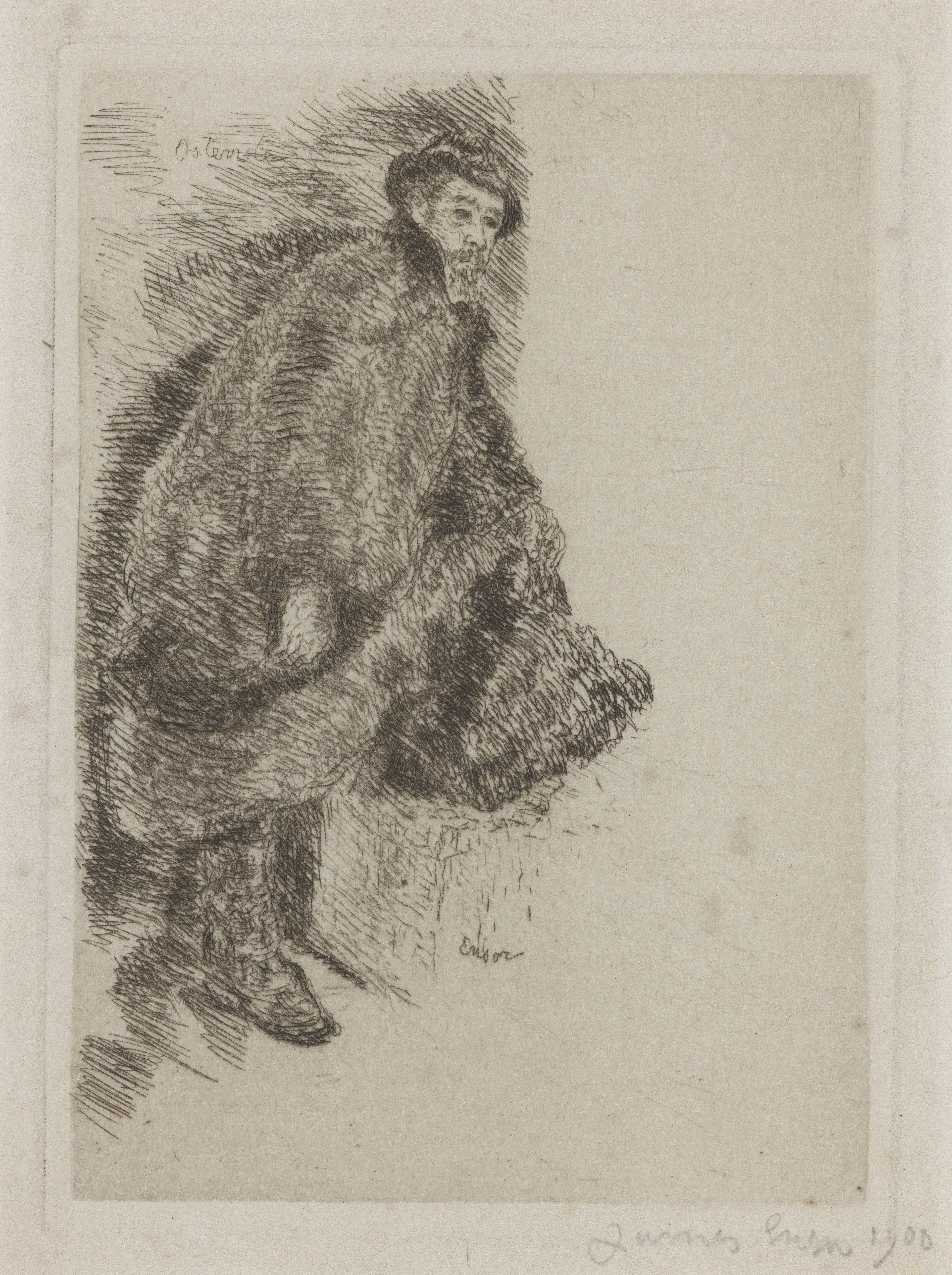 De Oostendse Visser (James Ensor, 1900), collectie Navigo – Nationaal Visserijmuseum Oostduinkerke